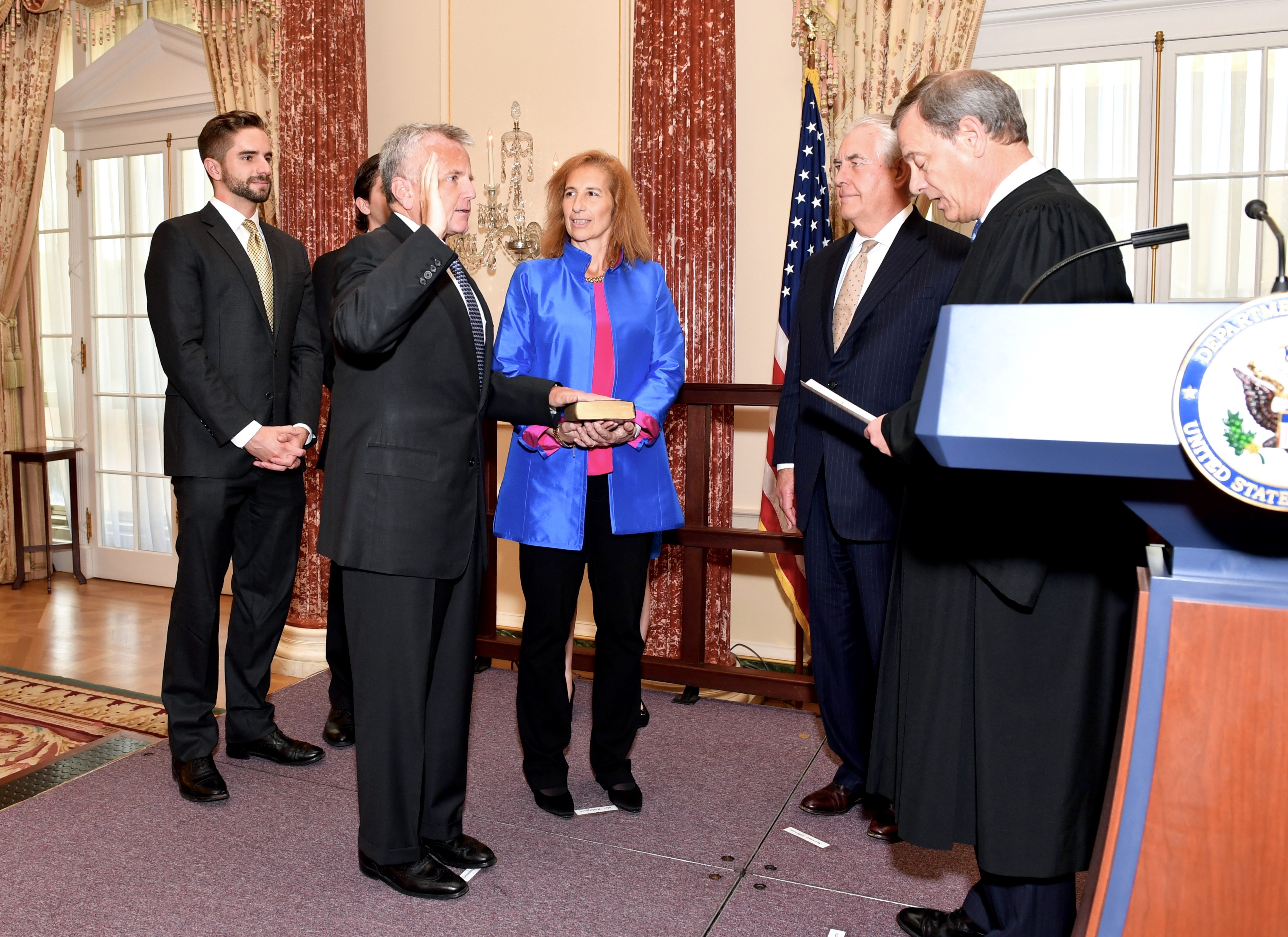 With family and U.S. Secretary of State Rex Tillerson looking on, U.S. Chief Justice John G. Roberts Jr. swears in John Sullivan as the new Deputy Secretary of State at a ceremony at the U.S. Department of State in Washington, D.C., on June 9, 2017. [State Department photo/ Public Domain]